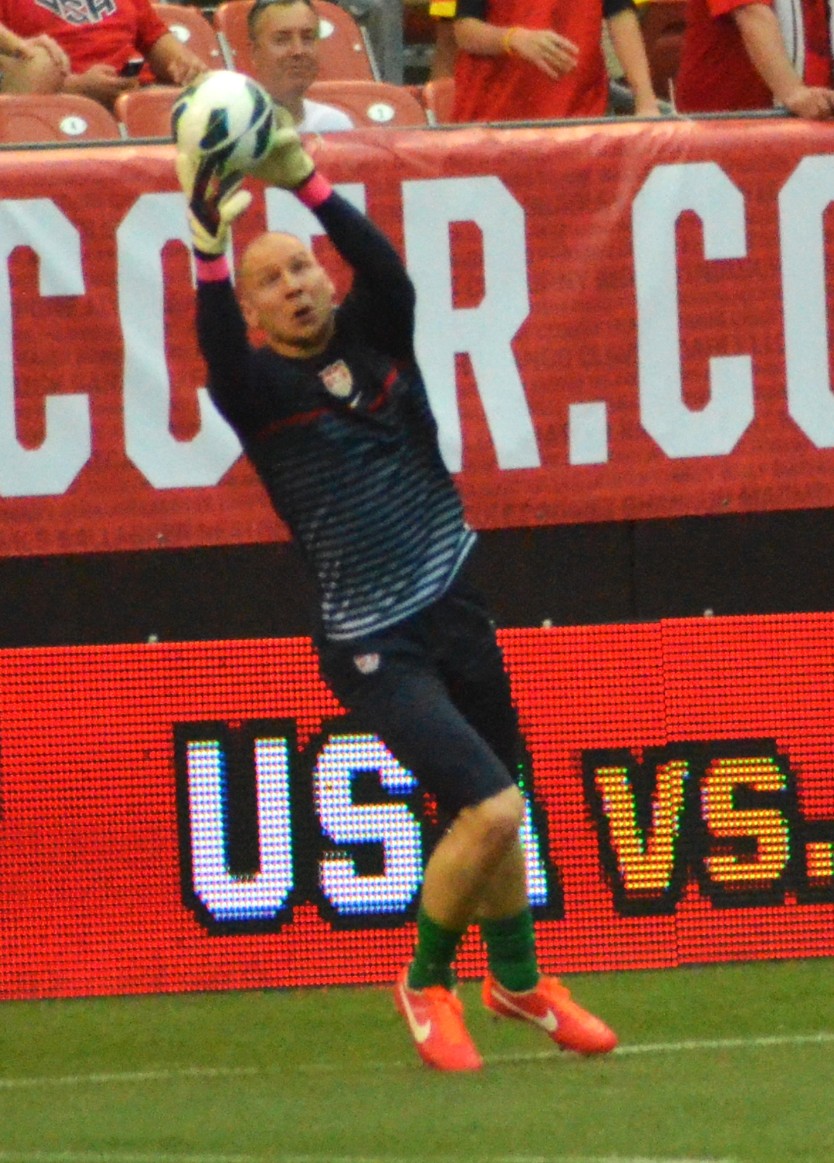 FirstEnergy Stadium Home of the Cleveland Browns